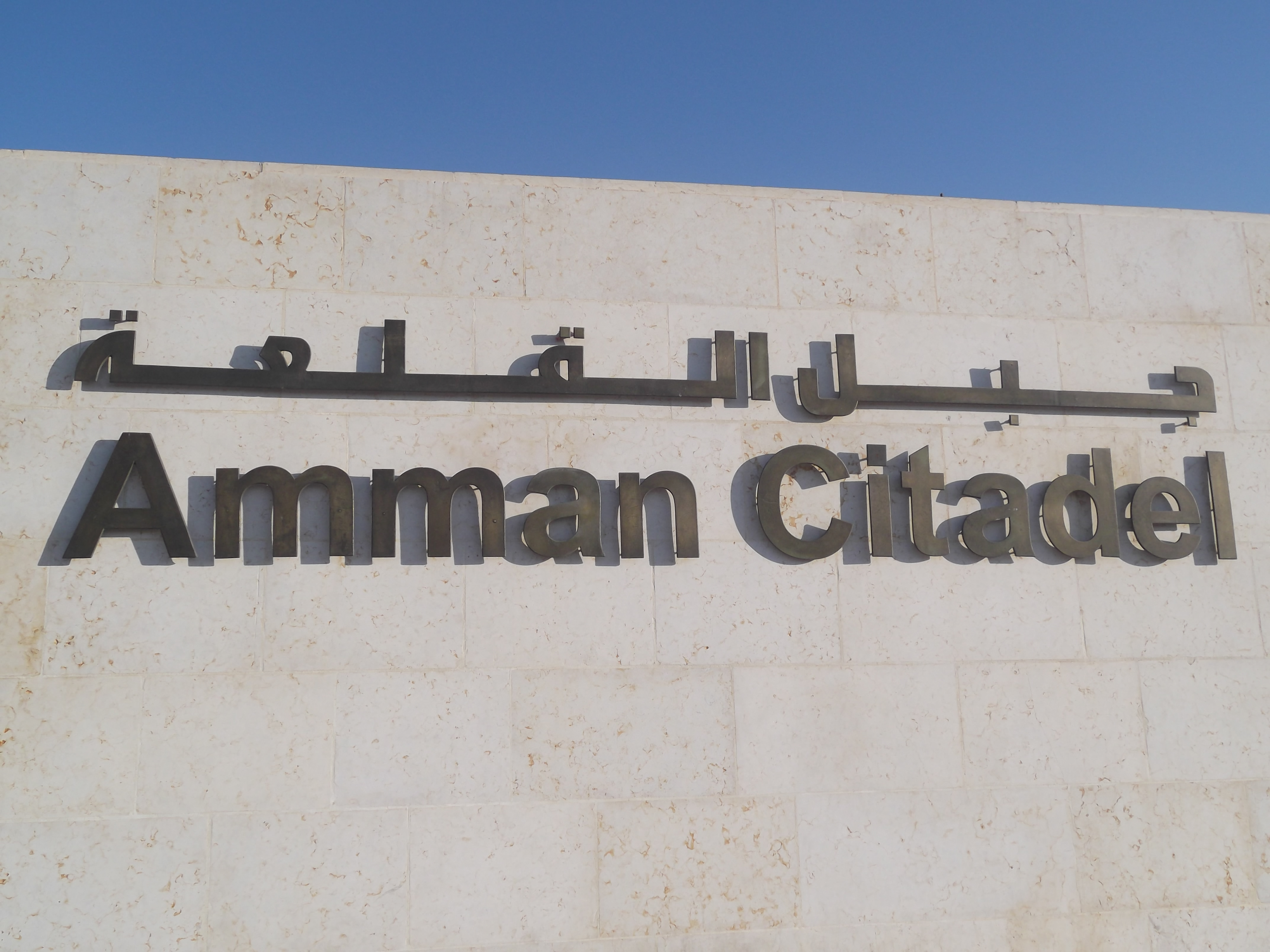 Amman Citadel